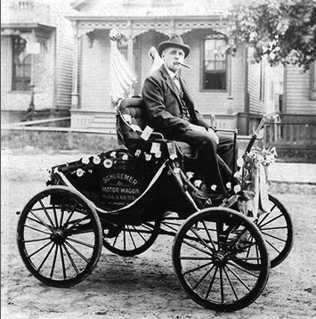 Gottfried Schloemer with his car in a 1895 floral parade